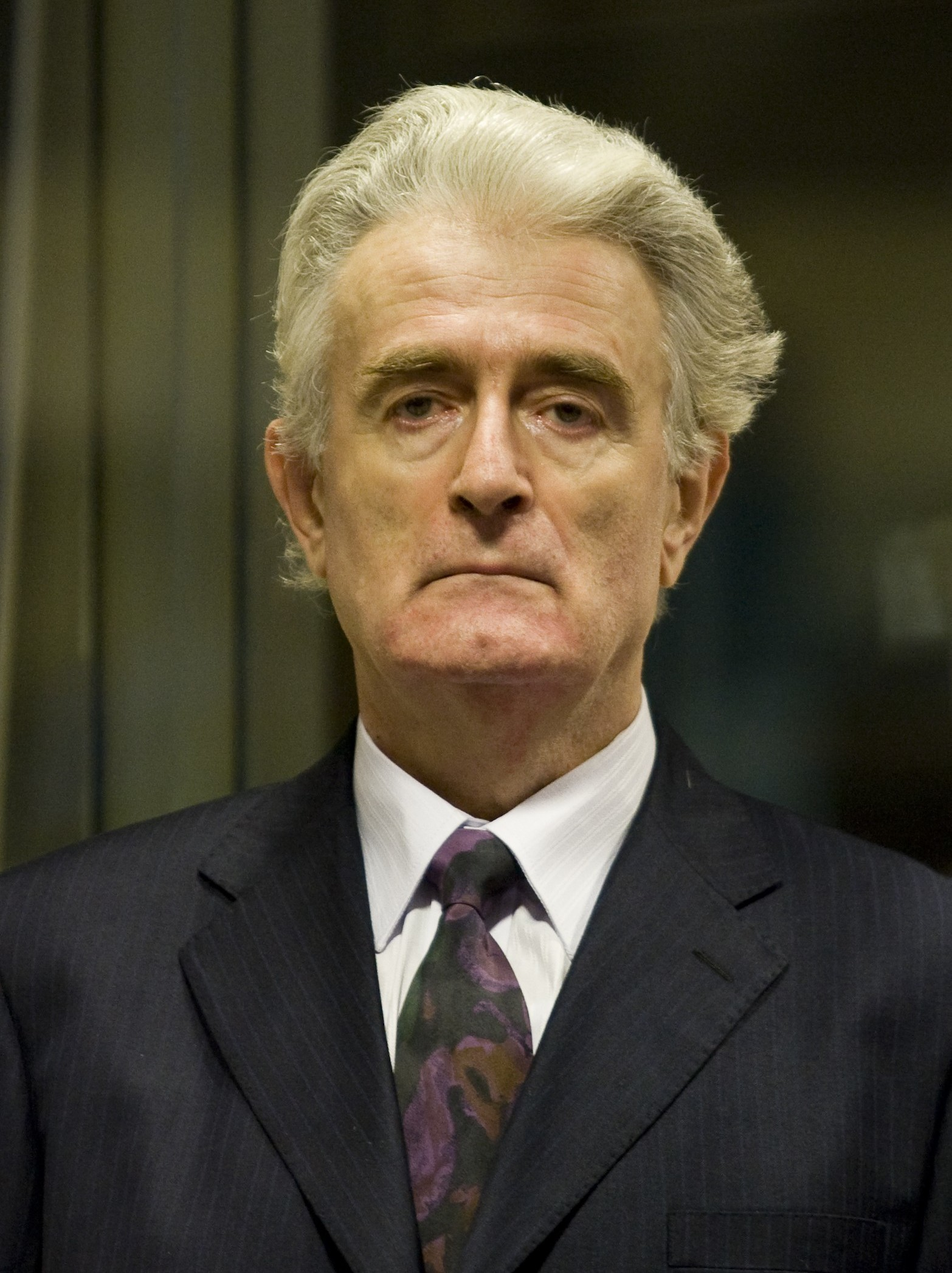 Radovan Karadžić at his initial appearance in court.